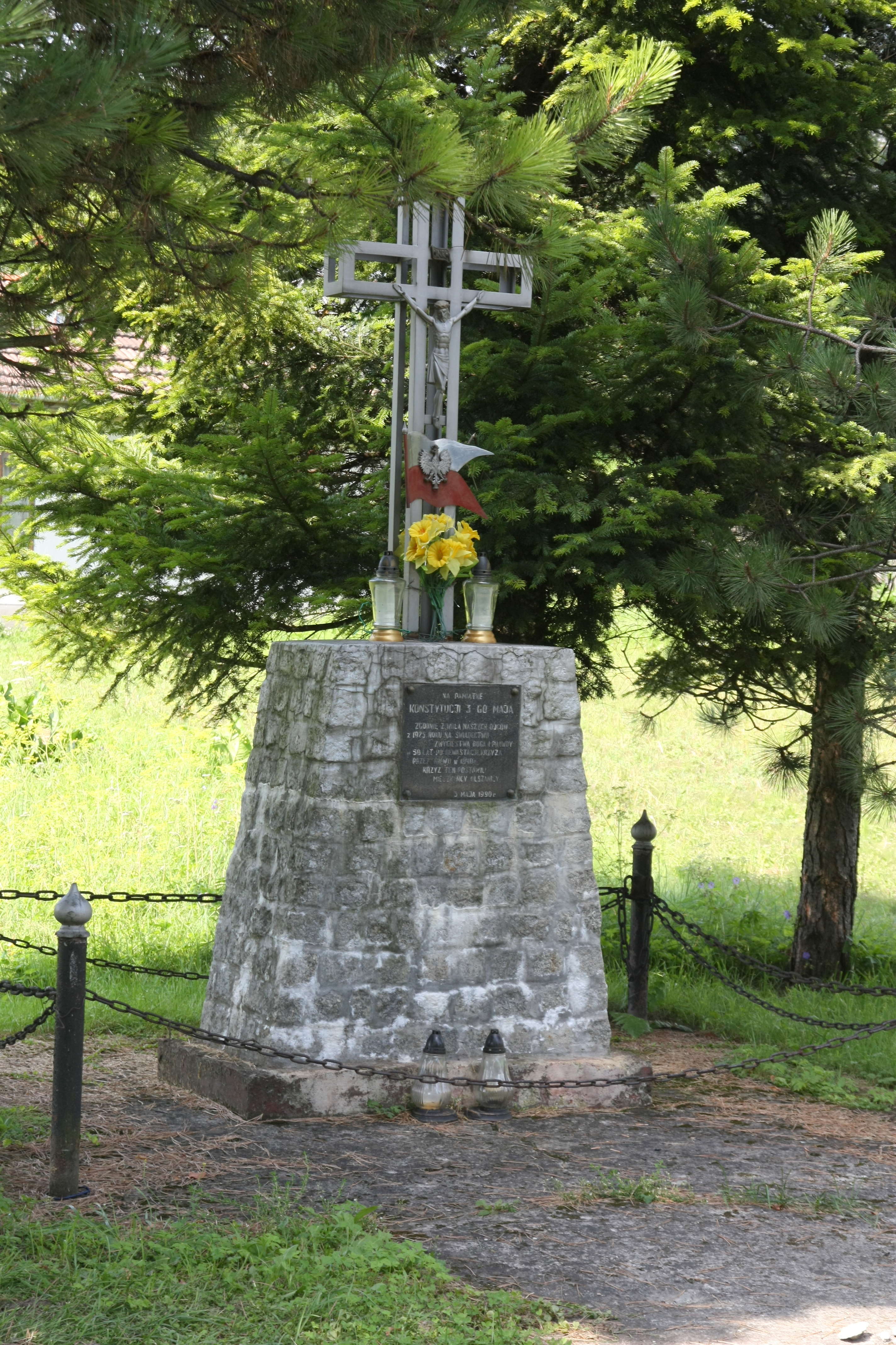 Monument in Olszanica.